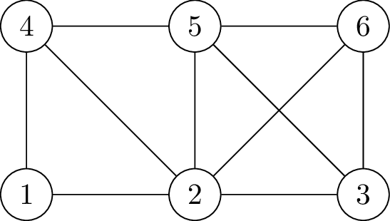 A line graph for which a Krausz partition is to be determined.